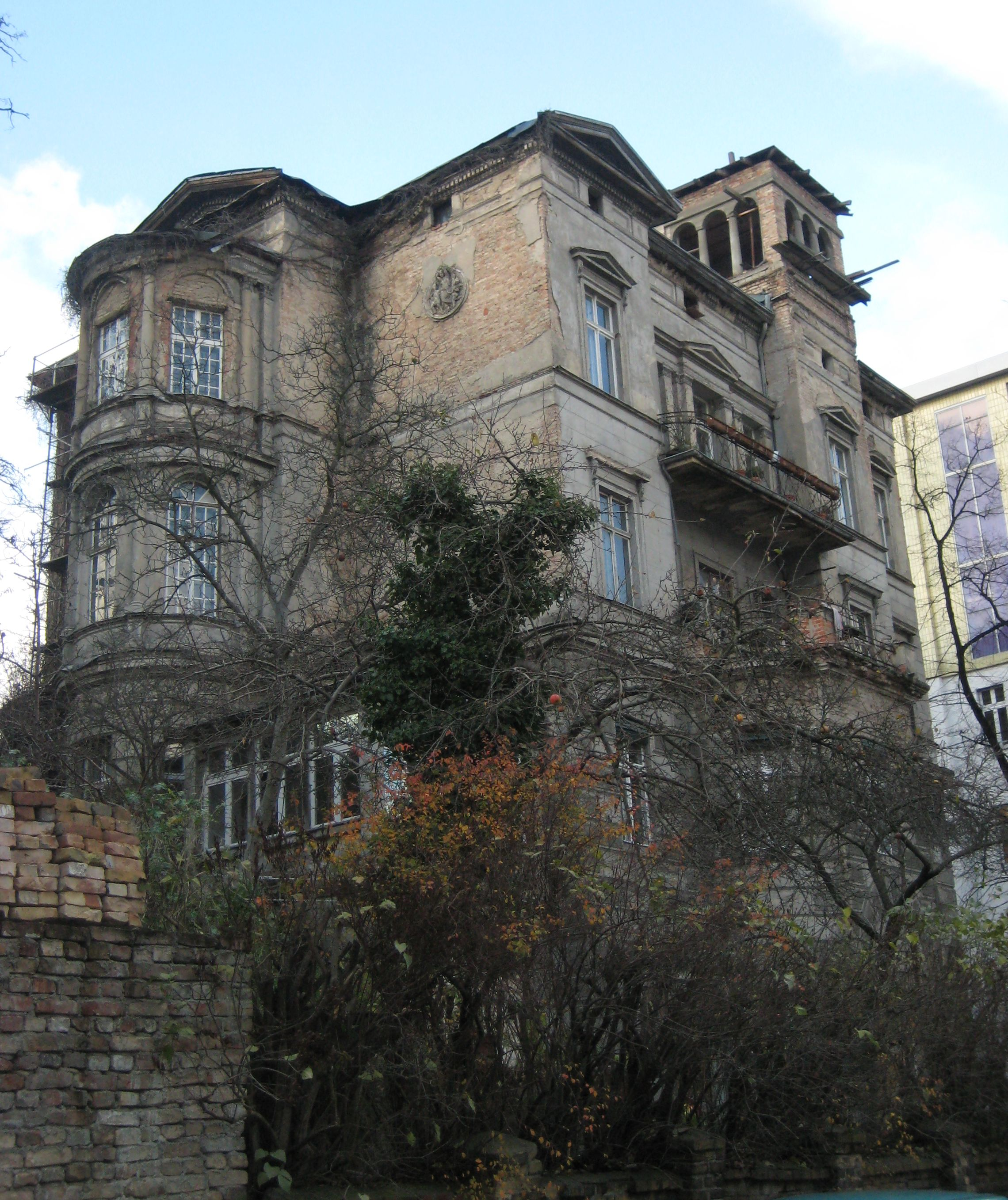 garden side of the landmarked Haus Lindenberg in Berlin-Kreuzberg, seen from Wilhelmshöhe street; the villa was built in 1874 by architect E. Becher